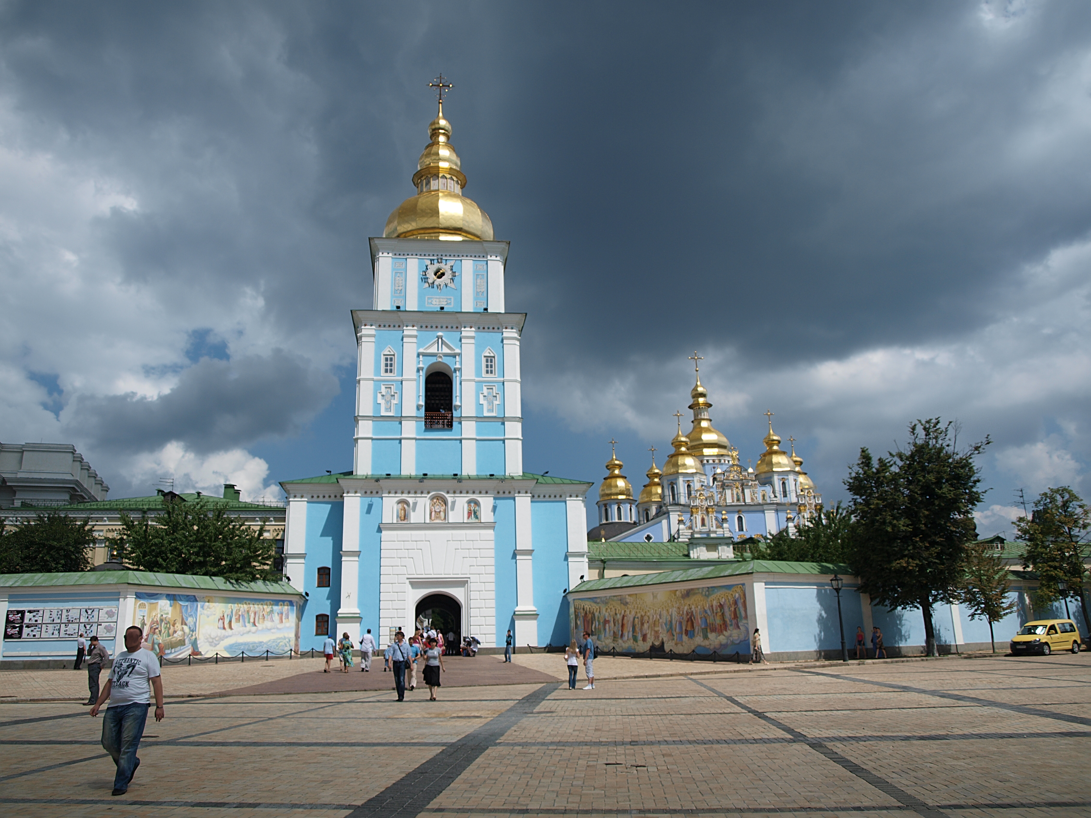 St. Michael's cathedral in Kiev, Ukraine